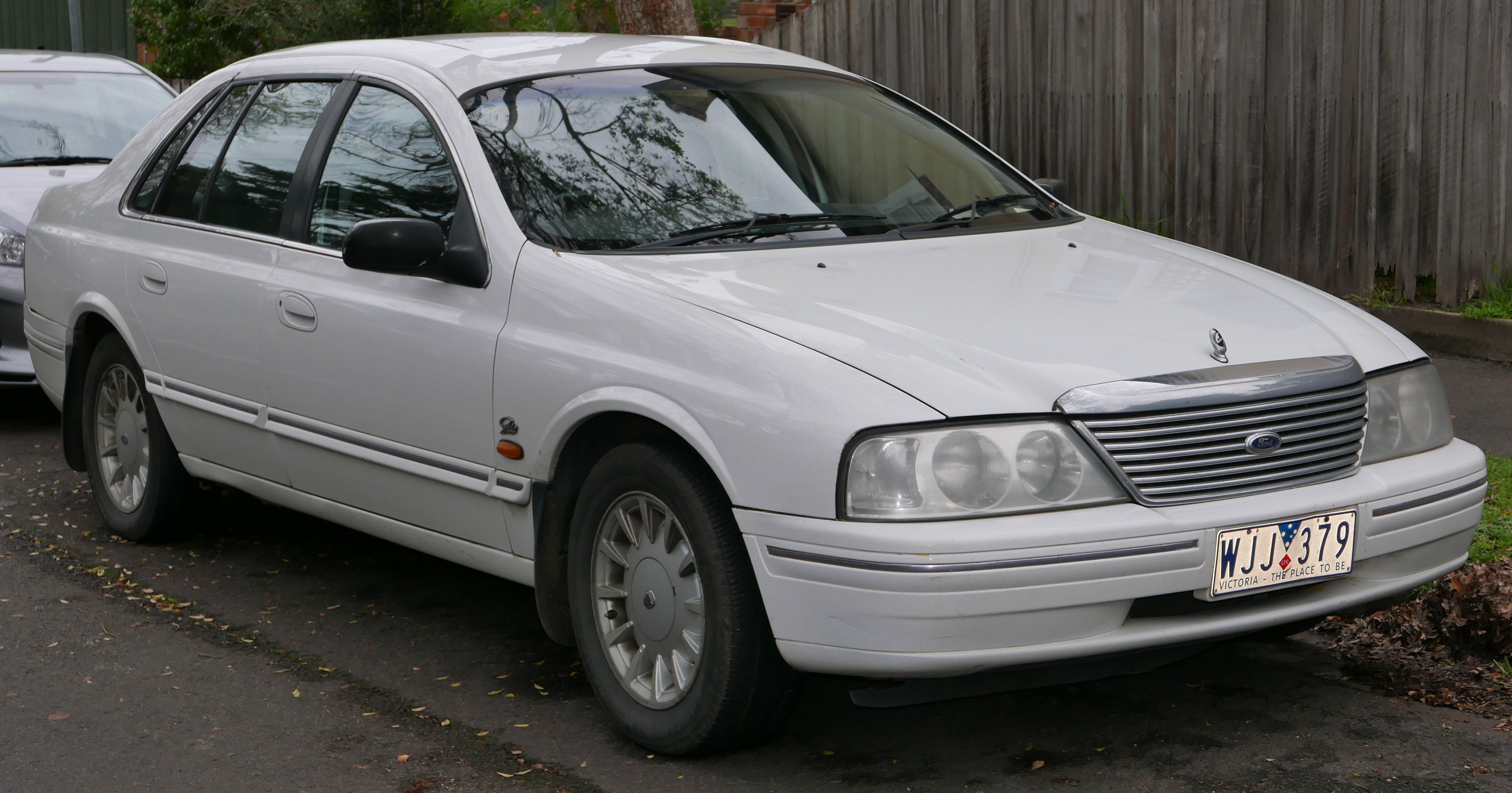 2001 Ford Fairlane (AU II) Ghia sedan. Photographed in Kew, Victoria, Australia. Vehicle registration enquiry resultsJurisdictionVictoriaRegistrationWJJ379Chassis code6FPAAAJGLW1K88168Engine codeJGLW1K88168Compliance date2001-10Year of manufacture2001